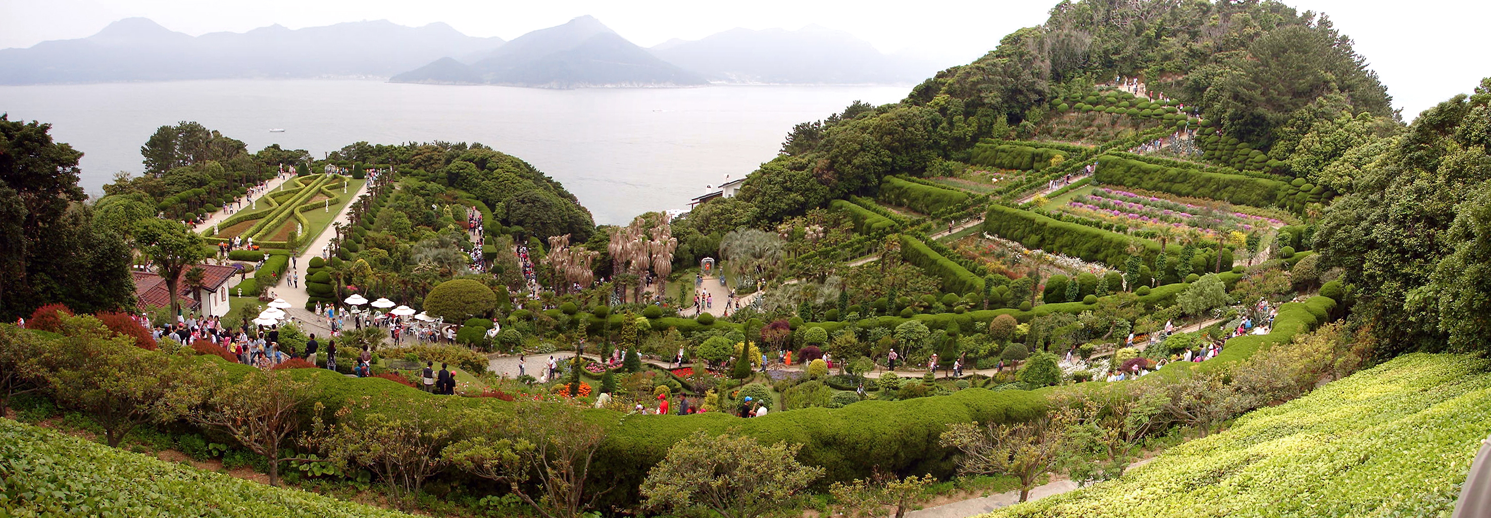 Oedo is a western-style island botanical garden built 1969 by Lee Chang-ho and his wife, in Hallyeo Haesang National Park (national marine park), in what is part of Geoje city, Gyeongsangnam-do, South Korea. The island is home to more than 3,000 plant species, many quite rare, like Agave Americana, Rose of Sunshine, Windmill Palms, C.peruvianus (a kind of cactus), and includes many other subtropical plants, like cactus, palm trees, gazania, eucalyptus, bottlebrush bush, New Zealand flax, and agave. Oedo has a coastal climate with mild subtropical weather.